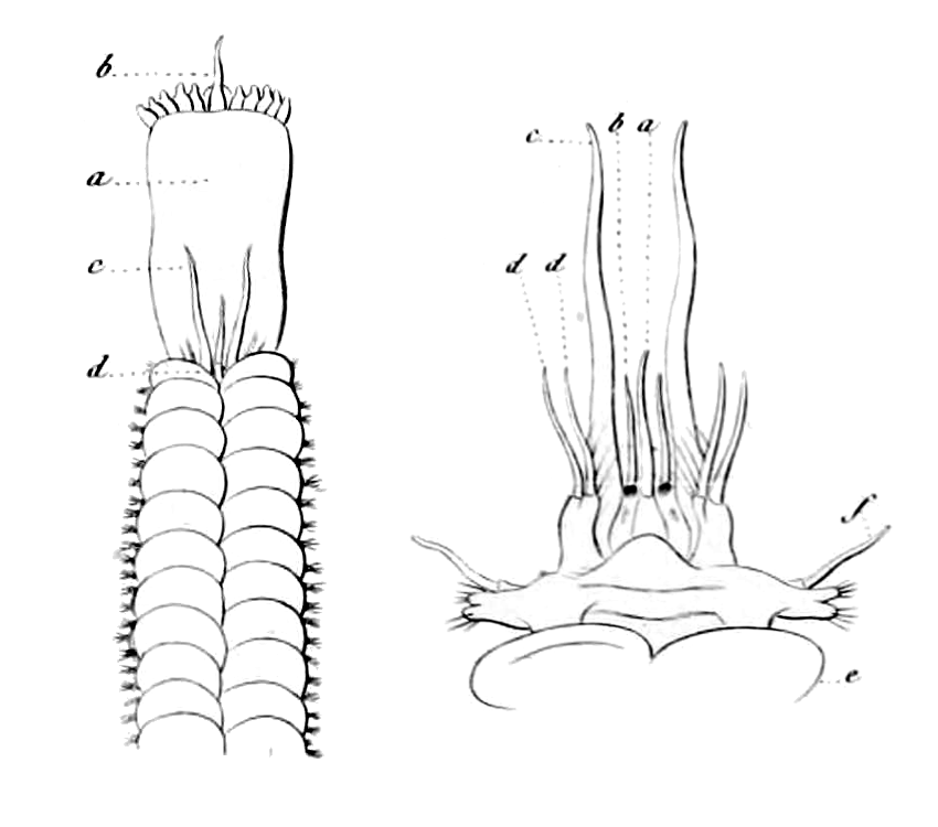 Anterior end of Acoetes pleei (Polychaeta: Aphroditiformia: Acoetidae).